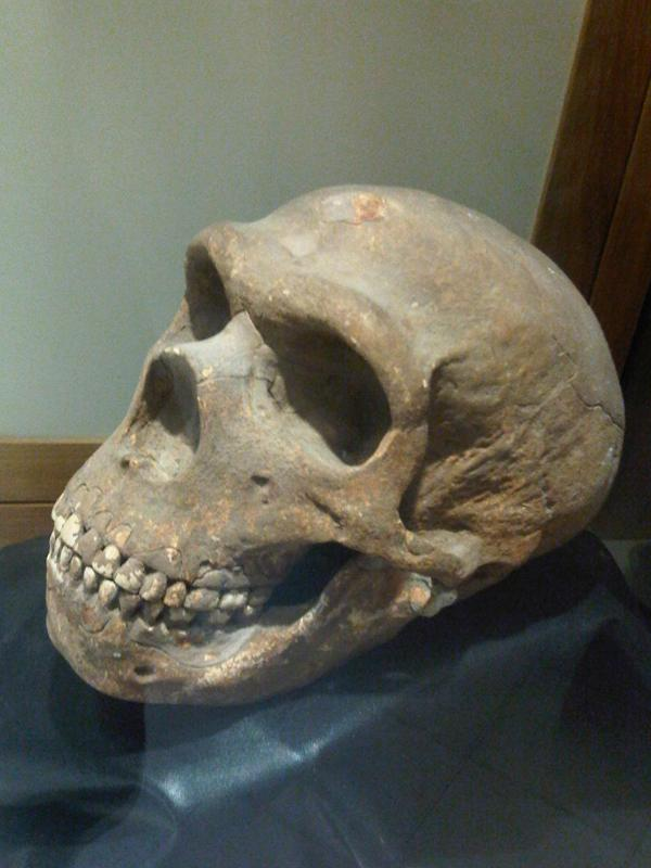 Neanderthal (Homo sapiens neanderthalensis) skull at the National Museum of Natural History, Vilhena Palace, Republic of Malta.